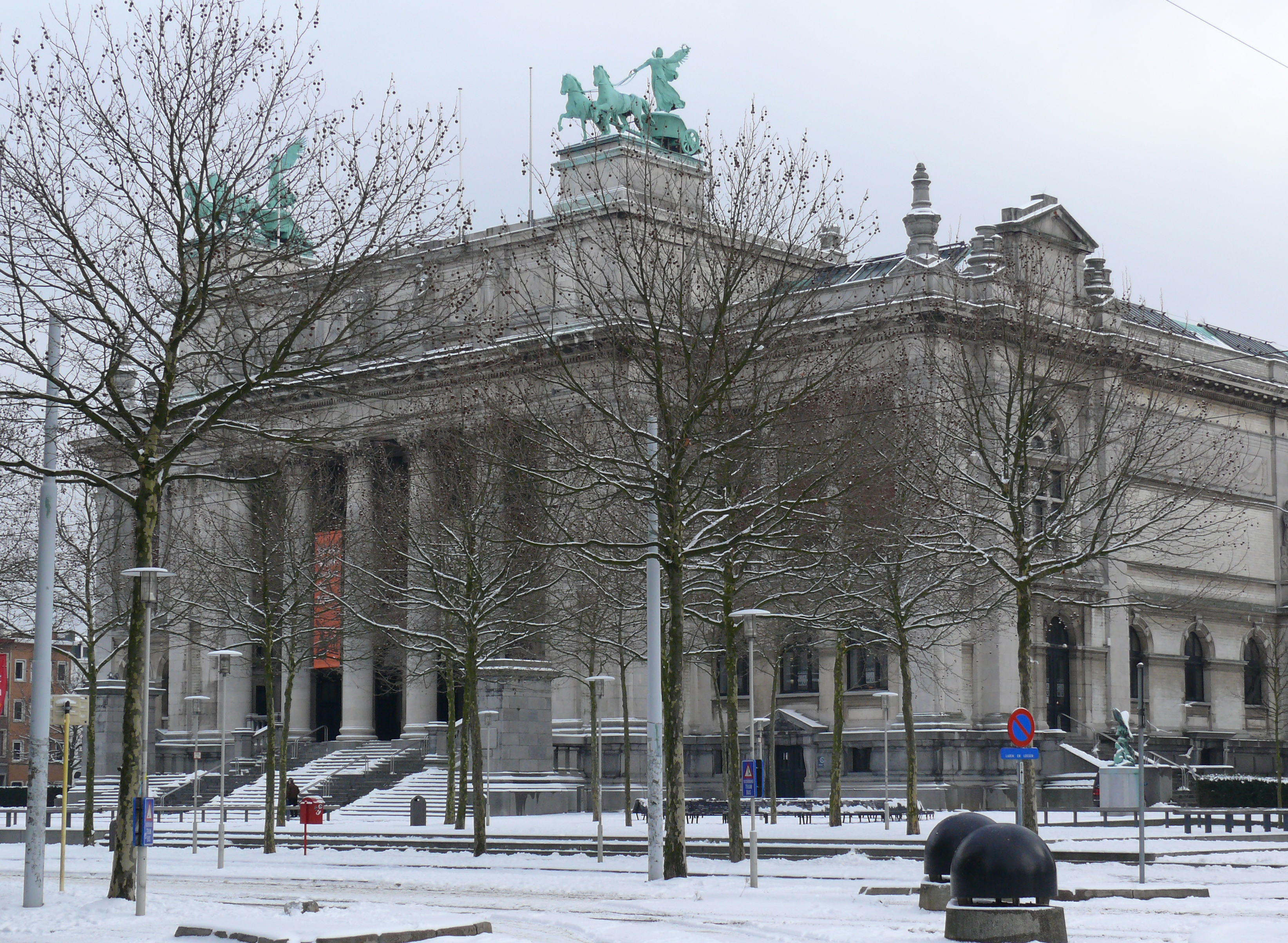 Royal Museum of Fine Arts (Antwerp) in winter.